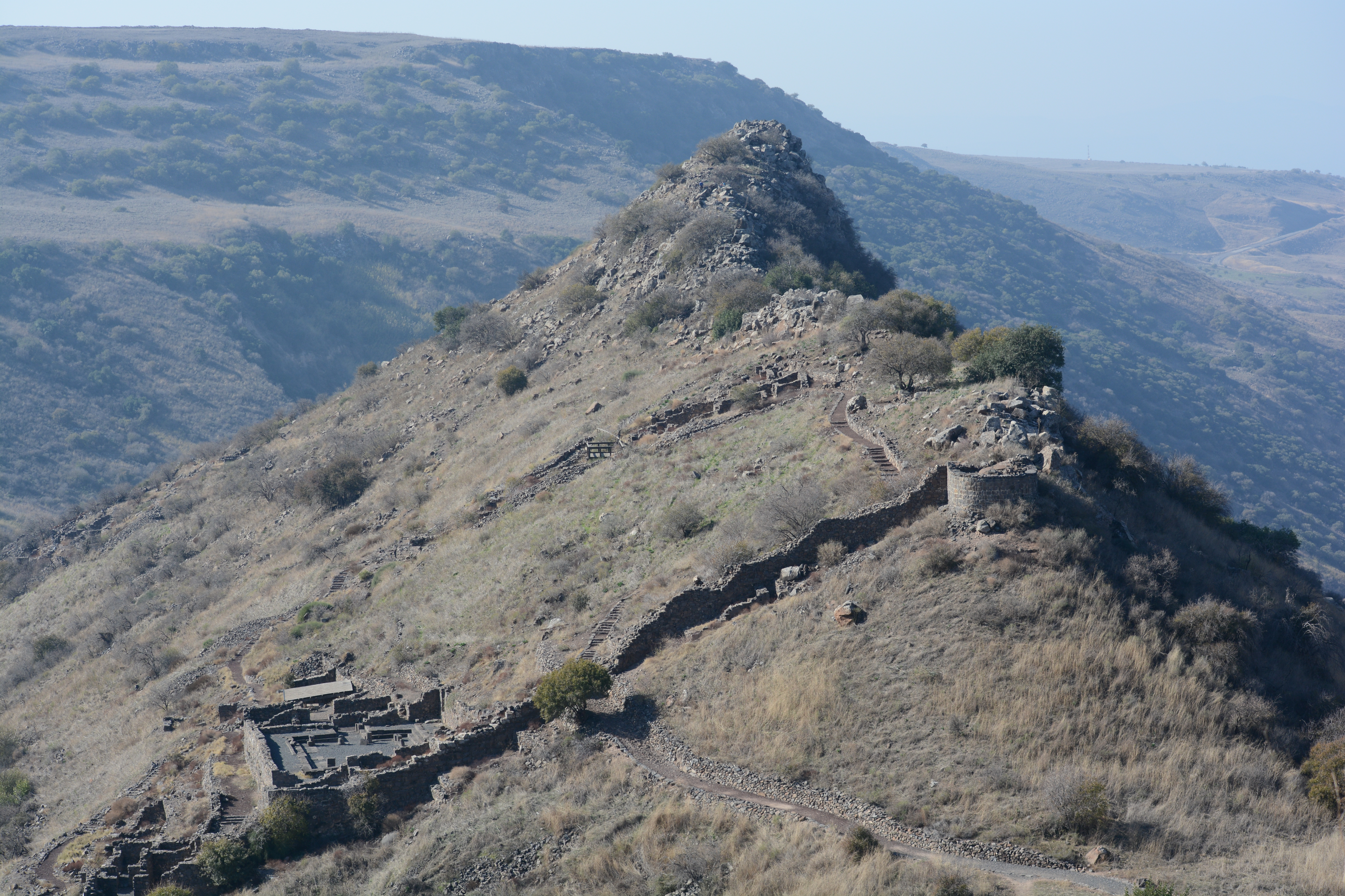 Ancient city Gamla. Golan Heights. Israel.